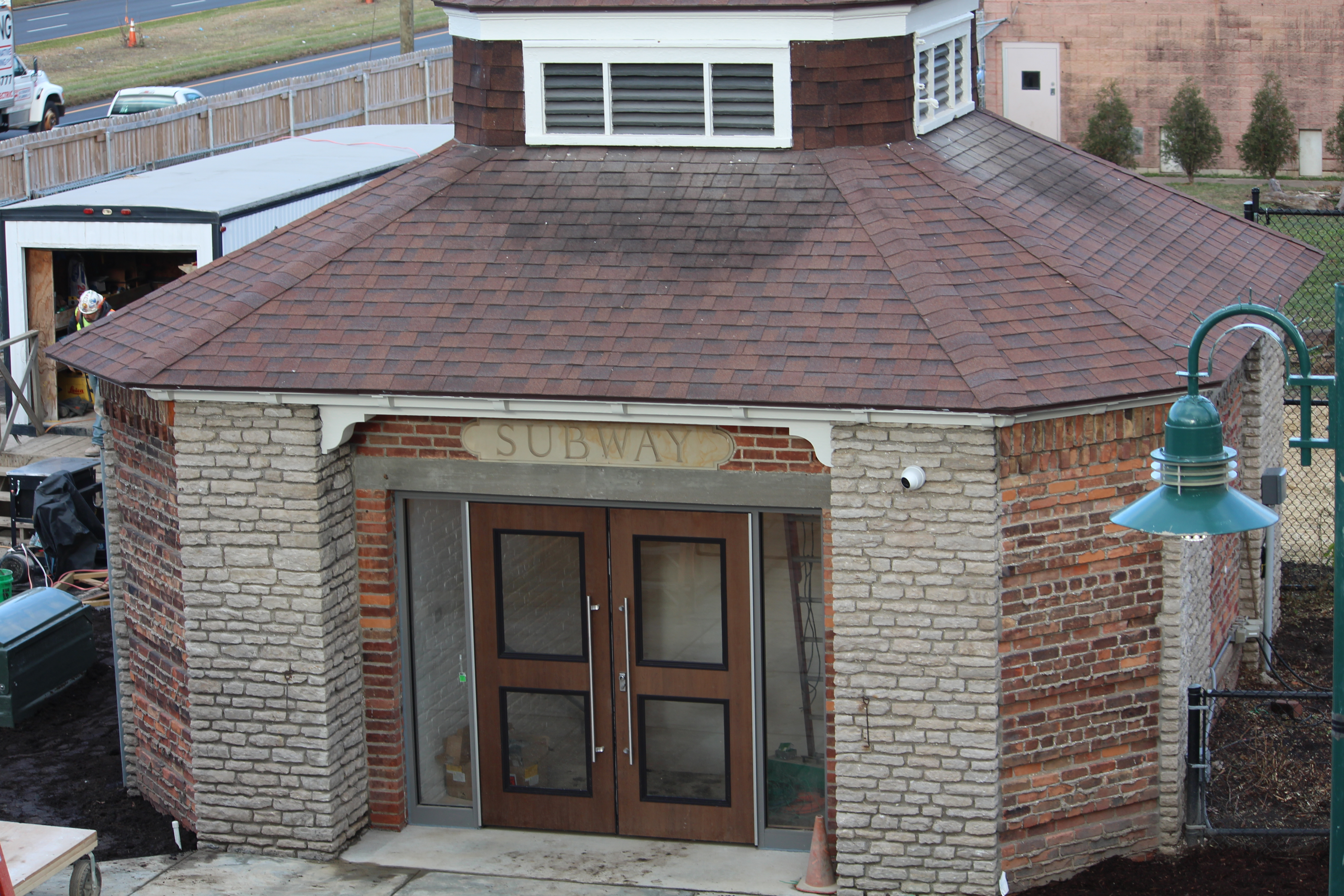 Subway Entrance at the Toledo Zoo